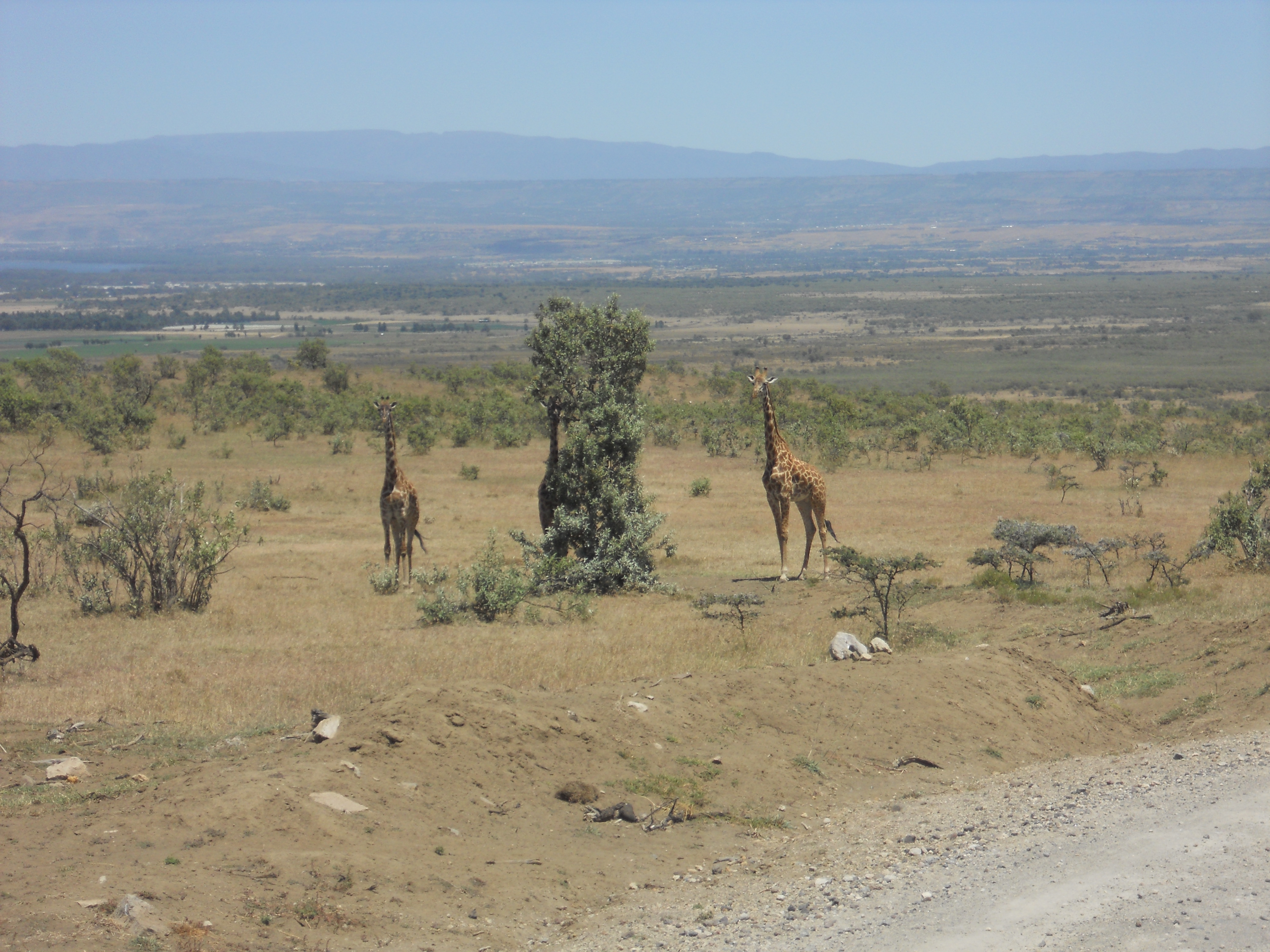 Giraffes in Hell's Gate NP